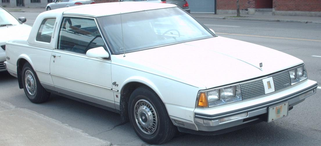 1986 Oldsmobile Ninety Eight Coupe photographed in downtown Montreal, Quebec, Canada.